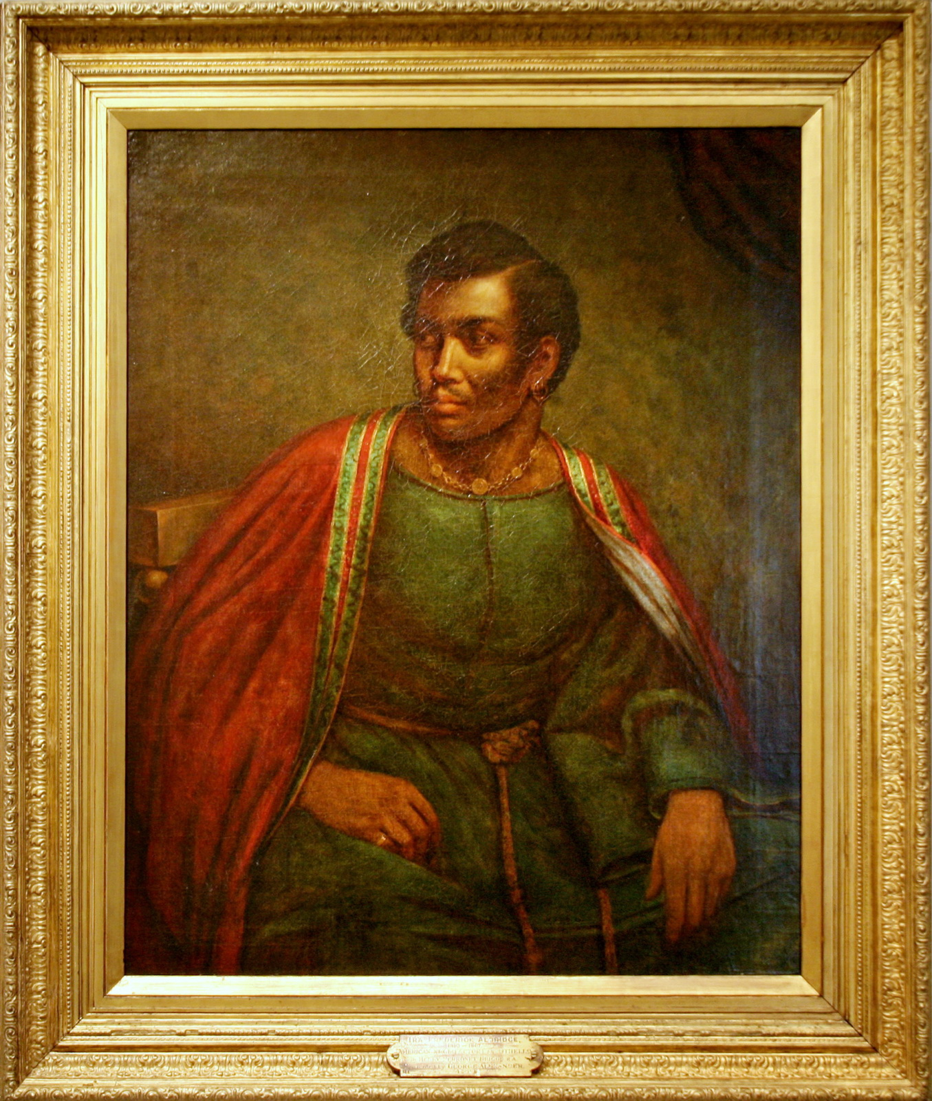 Oil on canvas portrait of Ira Aldridge as Othello; original size without frame 128.3×103.5 cm.